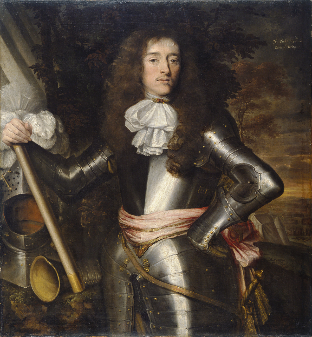 Wright, John Michael; Murrough O'Brien, 1st Earl of Inchiquin; Manchester Art Gallery